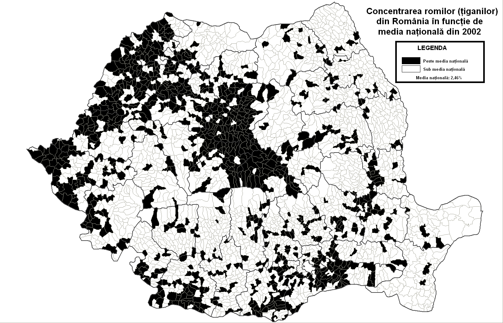 The distribution of the Roma minority in Romania (census 2002) Blacked districts represent places where Rroms constitute more than 2.46% (the national average of the Rrom population).